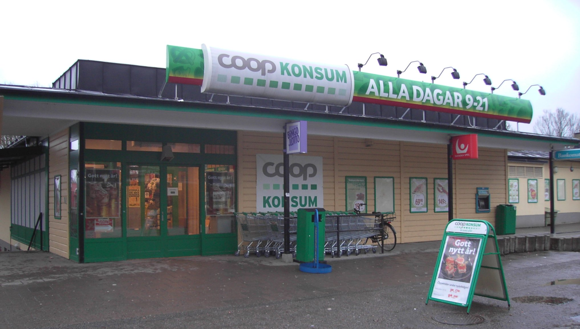 Konsum grocery store in Krokek, Östergötland, Sweden